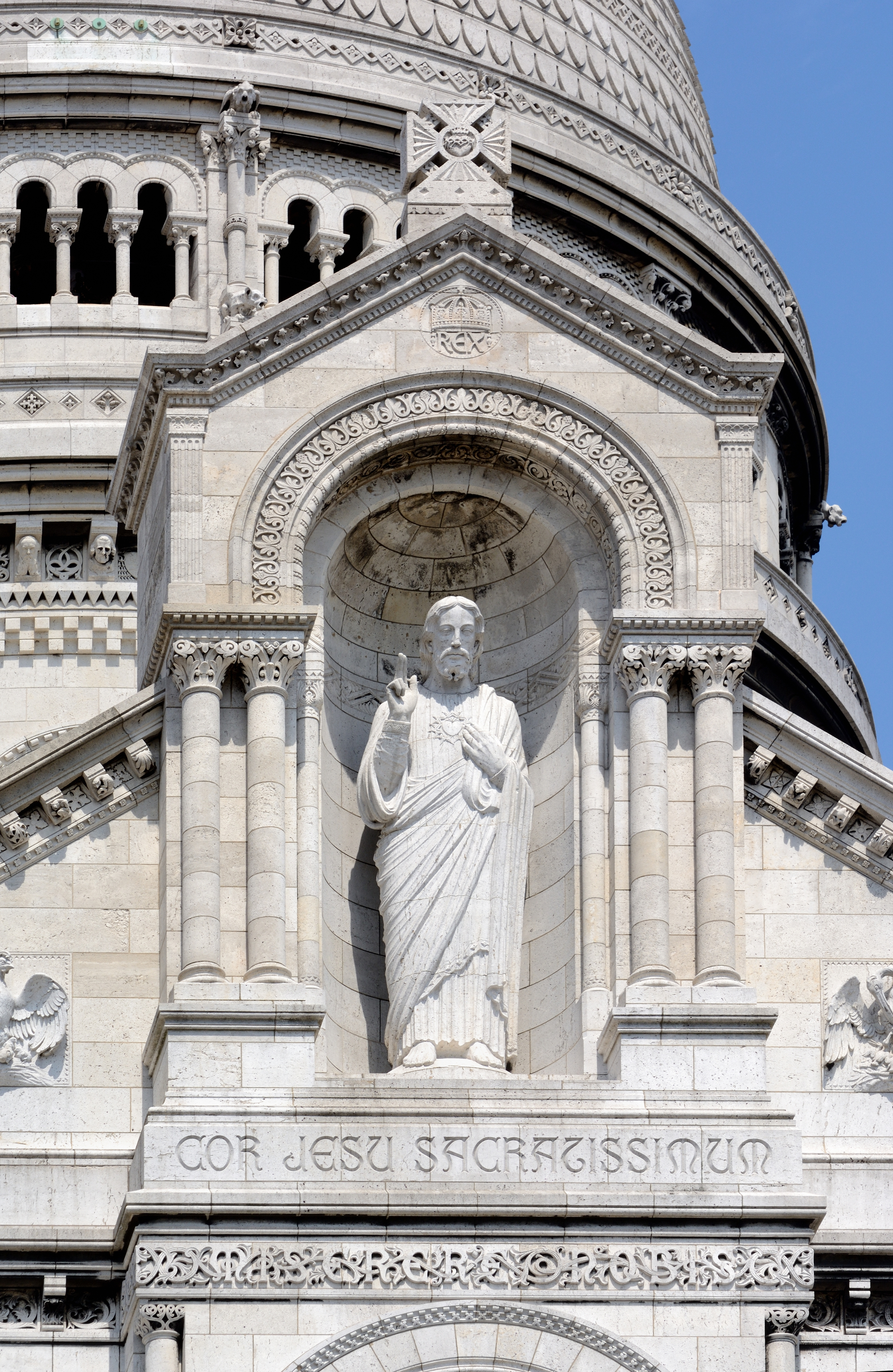 Blessing Jesus, detail of the facade of Sacré-Cœur, Paris